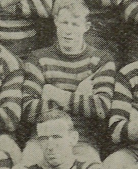 Photograph of Bill Ayling in 1903.